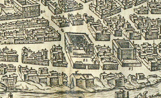 Palazzo Farnese (Rome); Detail-view from Urbis Romae Descriptio 1555 by Hugues Pinard.